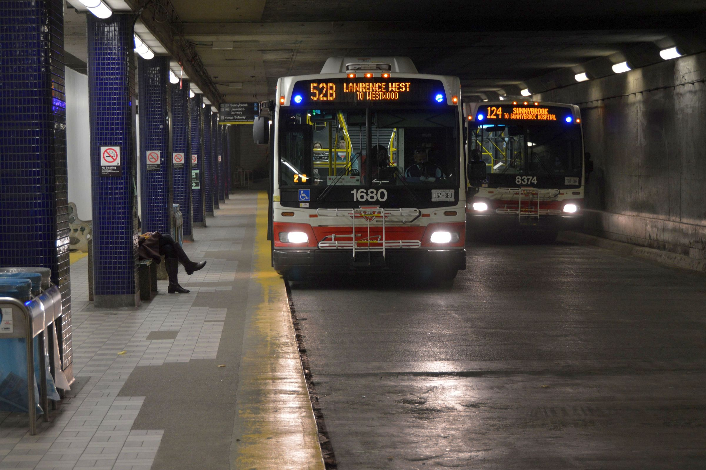 Bus platform at Lawrence TTC subway station in Toronto